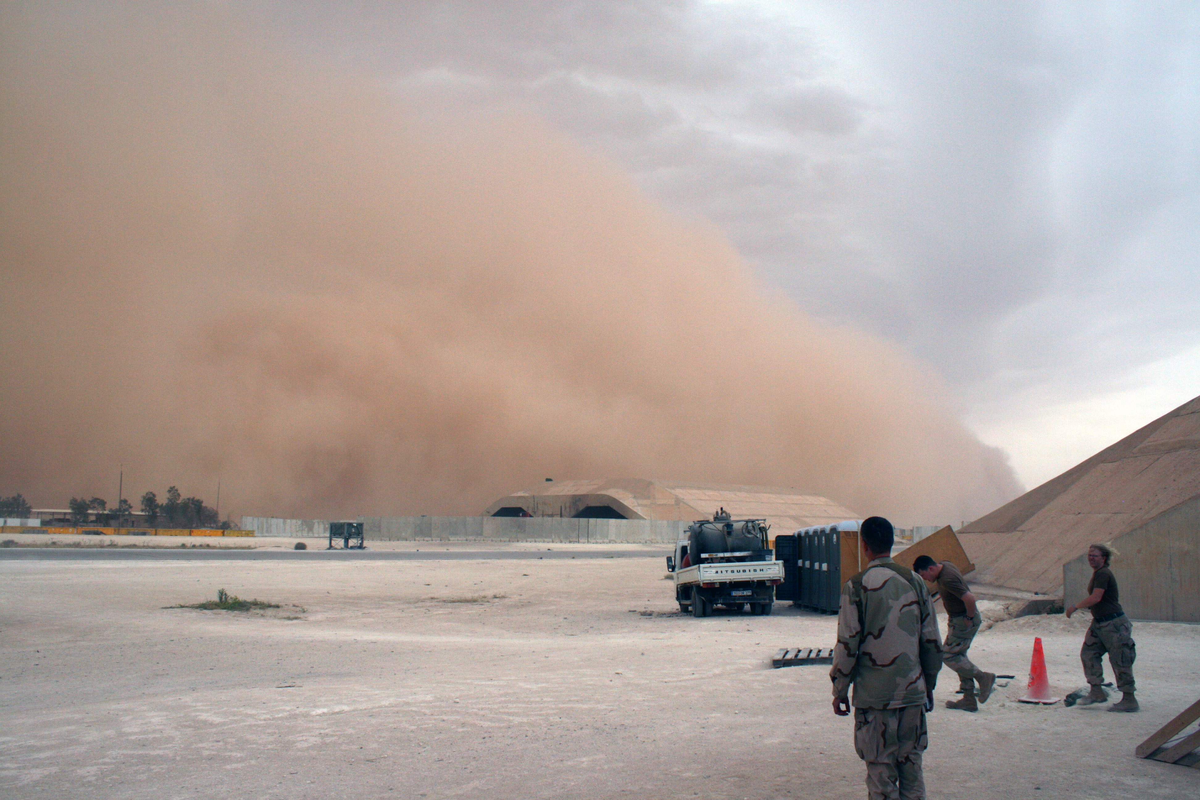 AL ASAD, Iraq (May 21, 2007) - Sailors prepare to take cover as a sandstorm engulfs the Hardened Aircraft Shelter at Al Asad Air Base, Iraq. Pilots stationed at Al Asad air base use the base to fly missions in support of the Global War on Terrorism. U.S. Navy photo by Senior Chief Aviation Structural Mechanic Andrew Stack (RELEASED)